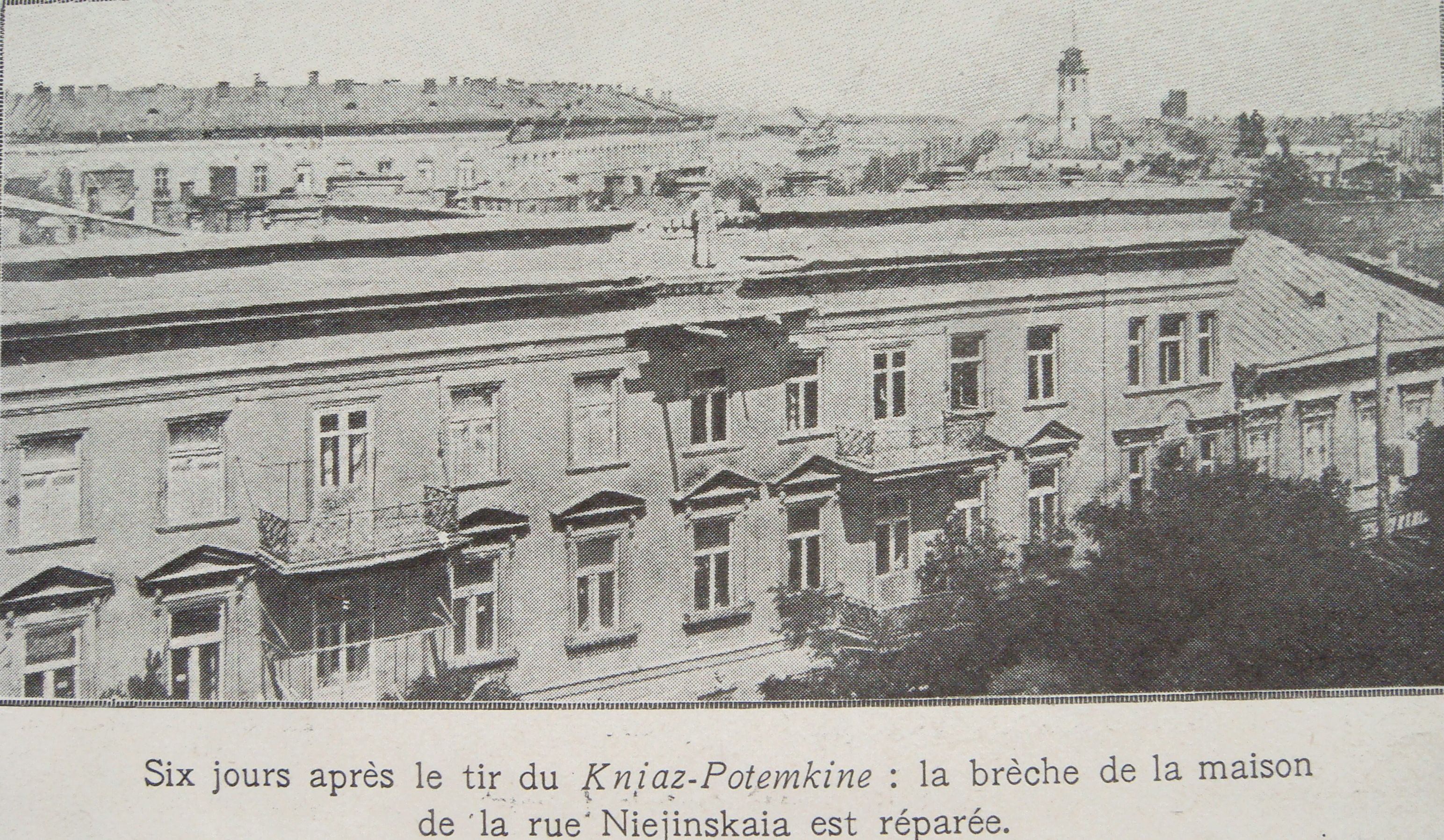 Potemkin mutiny. Roof of Fel'dman's building at 71 Nezhinskaya street hit by gunfire of Potemkin.